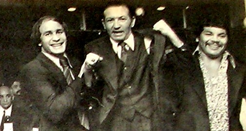 Boxing. Three Argentine World Champions boxers: Miguel Angel Castellini, Pascual Pérez y Victor Galíndez. This is the last picture of Pascual Pérez alive. December 10, 1976.